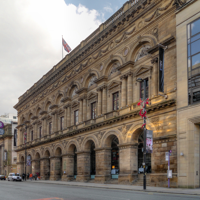 The Peter Street frontage of the Radisson Edwardian Hotel, originally built as the Free Trade Hall. The Free Trade Hall was a public hall constructed in 1853–6 to commemorate the repeal of the Corn Laws in 1846. The hall was funded by public subscription and became a concert hall and home of the Hallé Orchestra in 1858. The interior of the hall had to be rebuilt after bombing during the Manchester Blitz left it an empty shell; it re-opened in 1951. As well as housing the Hallé Orchestra, it was used for pop and rock concerts; it was Manchester's premier concert venue until the construction of the Bridgewater Hall in 1996. When the Hallé Orchestra moved to the Bridgewater Hall in 1996, the Free Trade Hall was closed by Manchester City Council. In 1997, the building was sold to private developers and, despite much opposition because of its historical significance, planning approval was eventually granted to convert it to a hotel, retaining the original facade was, the main staircase and the 1950s statues that were formerly attached to its rear wall. The hotel opened in 2004. The hall is designated as a Grade II* listed building. A red plaque on the wall records that it was built on St Peter's Fields, the site of the (in)famous Peterloo Massacre in 1819.